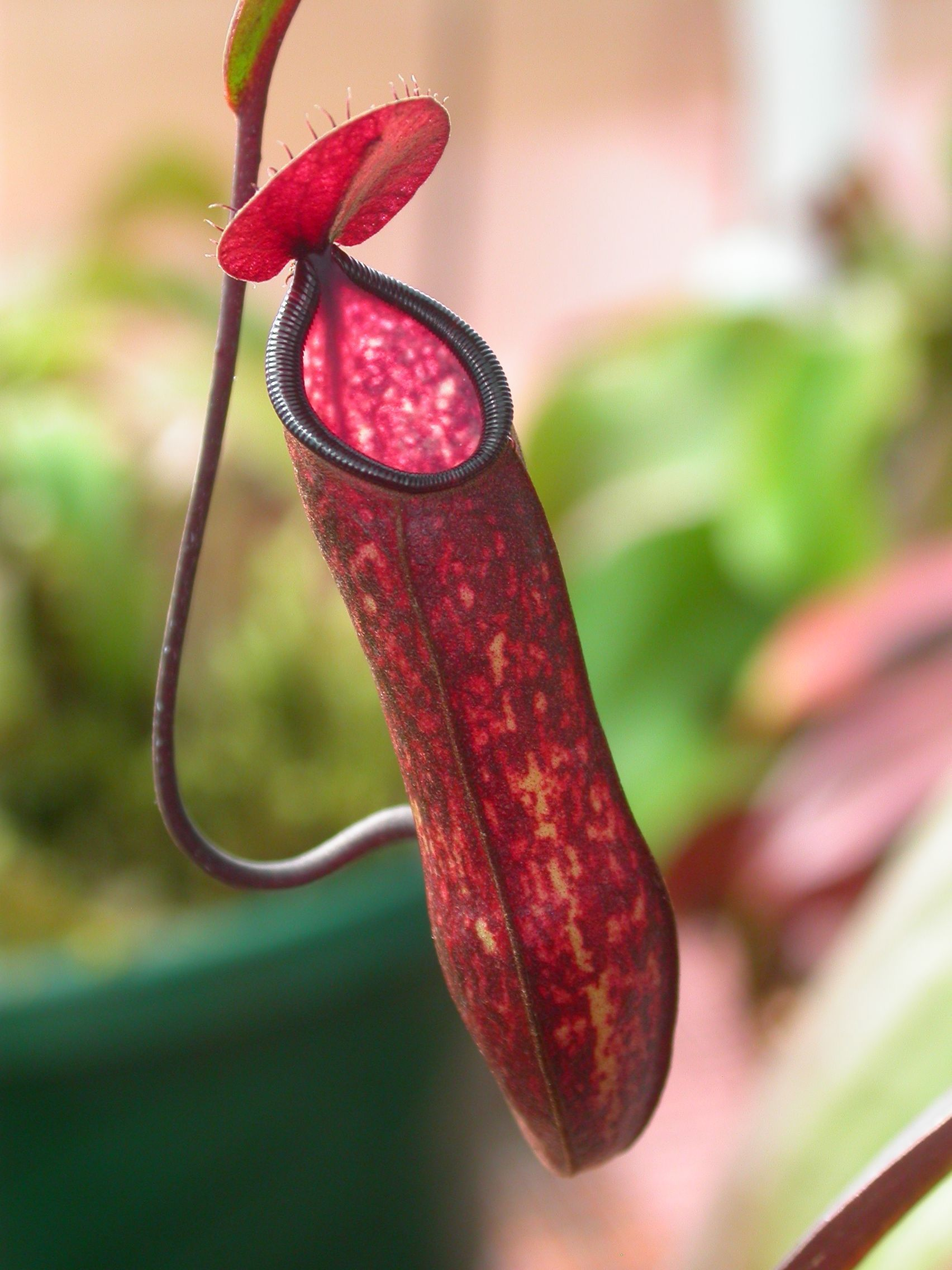 Here is a photo of my cultivated Nepenthes muluensis.